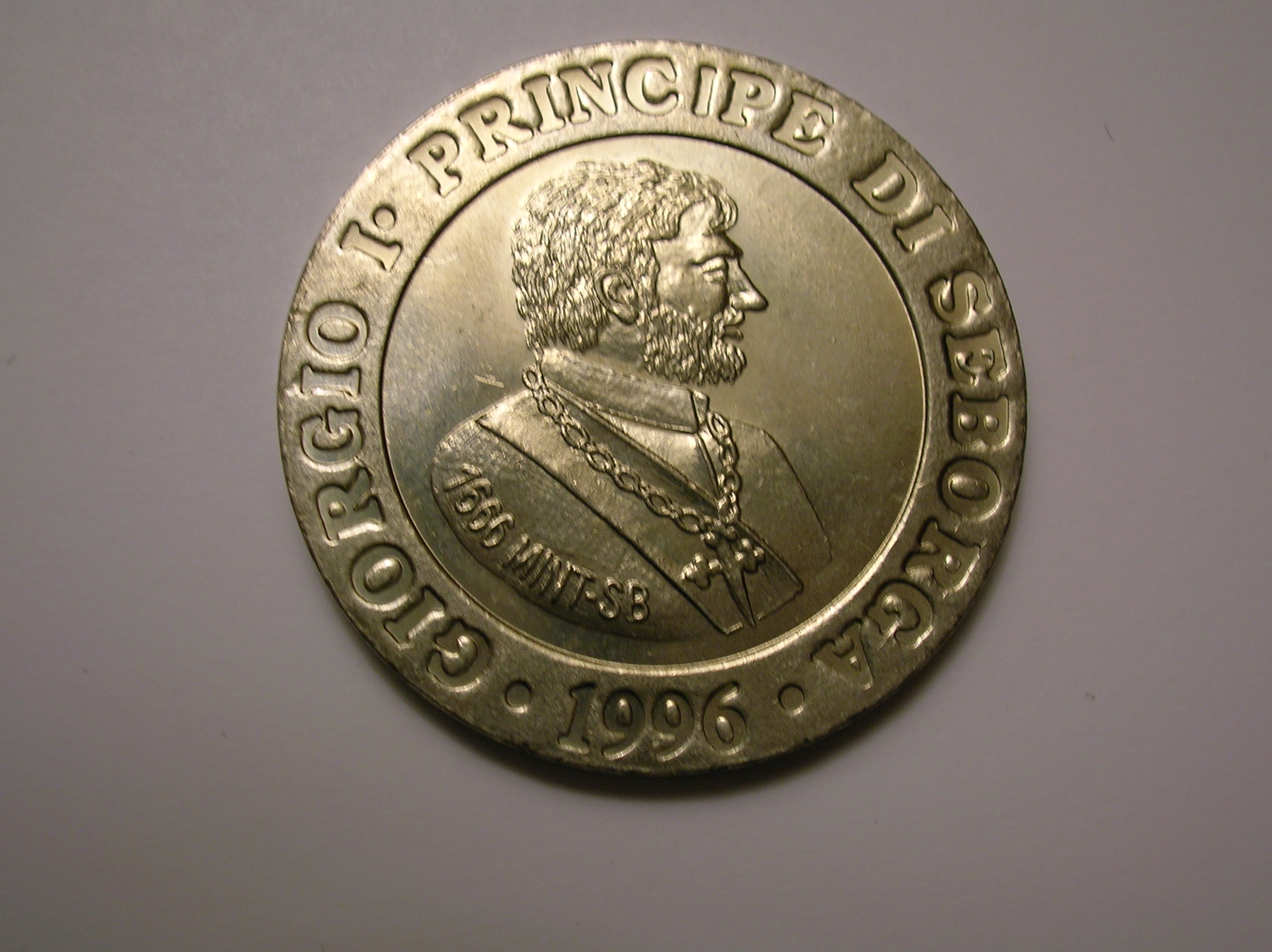 Prince of Seborga - Italy - 15c - 1996 - coins